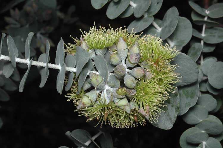 Foliage, flowers and buds of Eucalyptus x brachyphylla in the Australian National Botanic Gardens